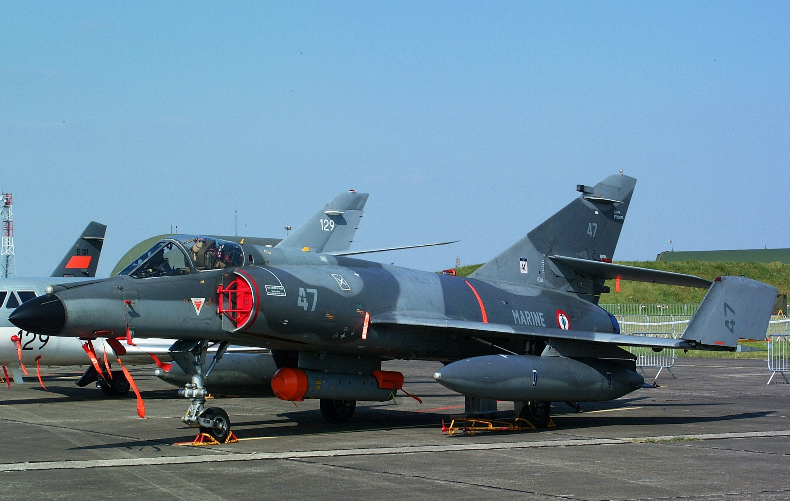 AMD No 47 Super Étendard M of 17 F based at Landivisiau